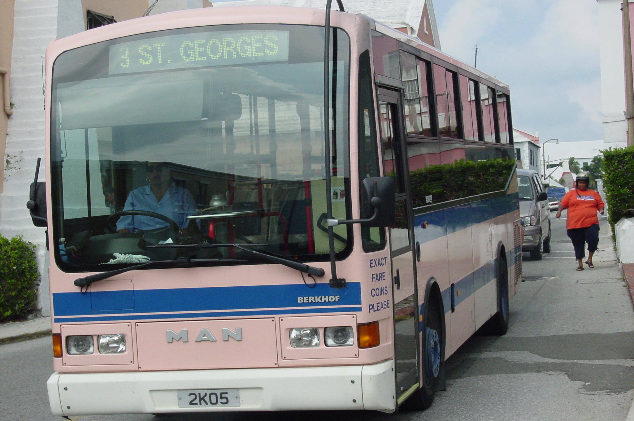 Bermuda Bus photographed in St. George's, Bermuda.